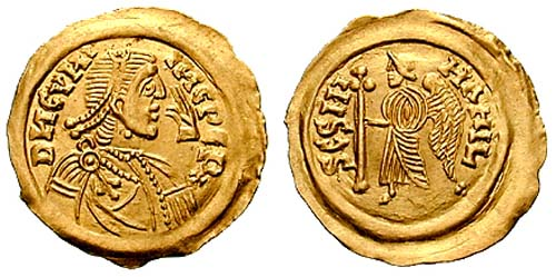 Lombardic Kingdom of Italy. Cunincpert. 688-700. AV Tremissis (1.41 gm). Pavia mint. DN CVNI-INCPE RX, diademed, draped and cuirassed bust right; in field to right, manus Dei SCS MI-HAHIL :., St. Michael standing left, holding long cross. Bernareggi, Il sistema economico e la monetazione dei Longobardi nell'Italia Superiore, pg. 138, 18; Gnecchi collection 3950; Arslan, Le monete dei Ostrogoti, Longobardi e Vandali, pg. 60, 43. Very rare. EF. ($3000) Ex Aufhäuser Auction 14, (1998), lot 566. In the early years of Lombardic settlement coinage seems to have been the product of local initiative, and only later in the 7th century was there an attempt to reestablish a royal monopoly. Cunincpert was the first Lombardic monarch to place his name and title explicitly on the coinage. The above specimen with the hand of God symbol recalls chapter 242 of Rothari's Edict of 643: " He who stamps gold or mints coin without the king's command shall have his hand cut off".